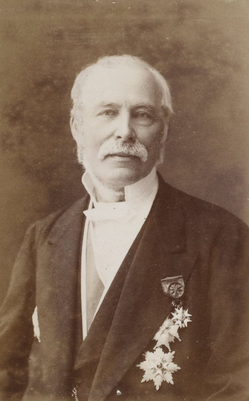 Portrait of Ole Jacob Broch (1818–1889), Norwegian mathematician, physicist, economist and politician, by Eugène Pirou